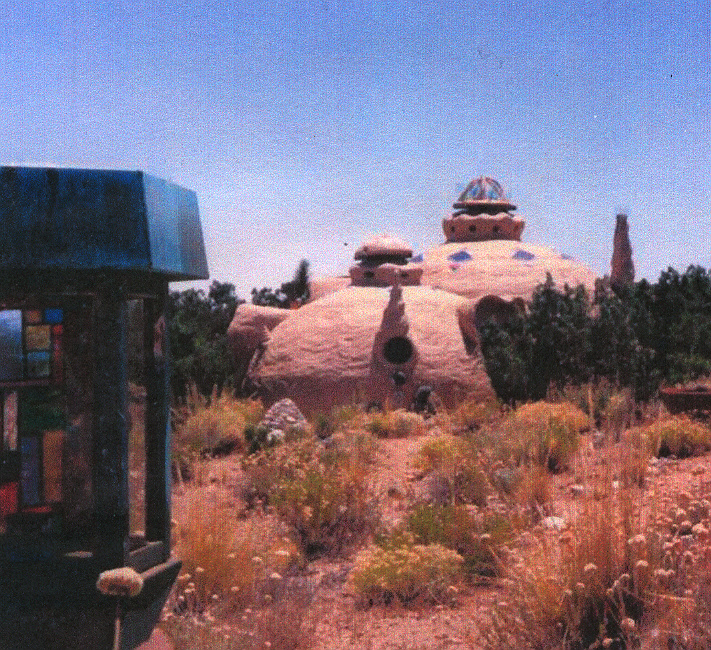 Ferrocement domes